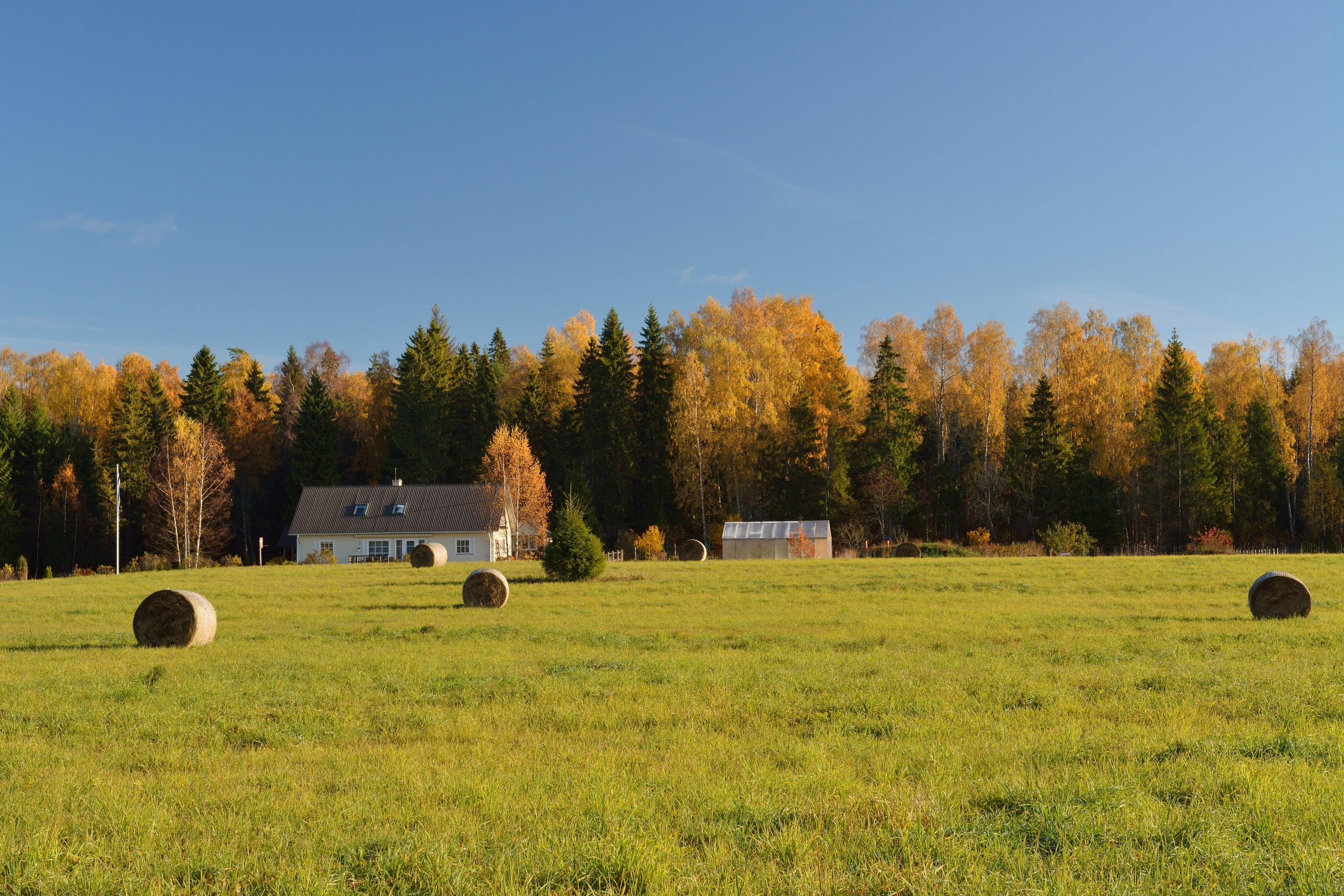 Arbavere village